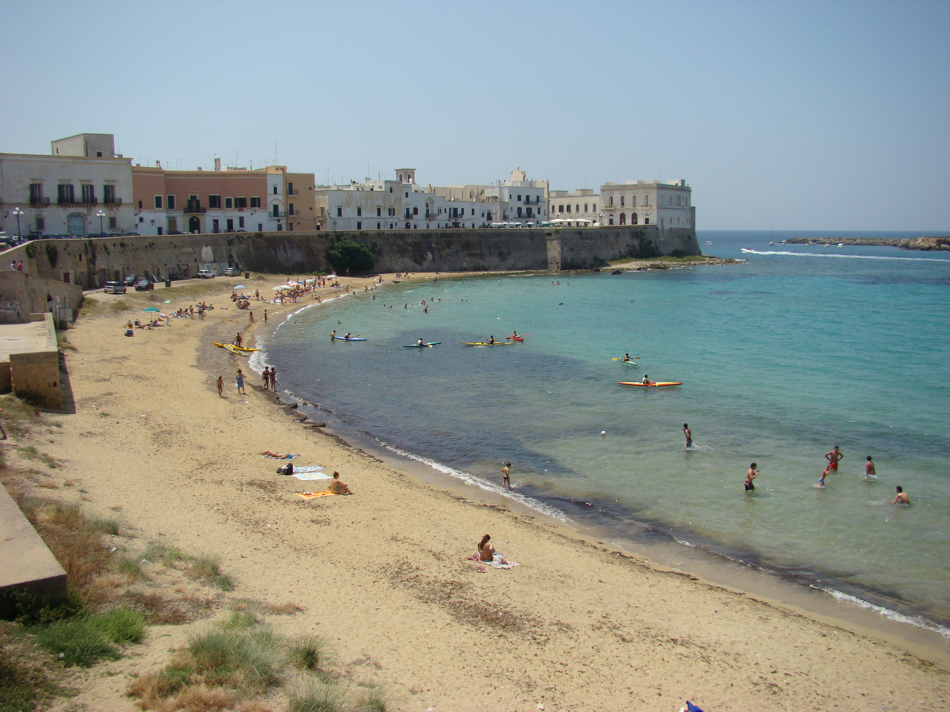 Gallipoli - Beach